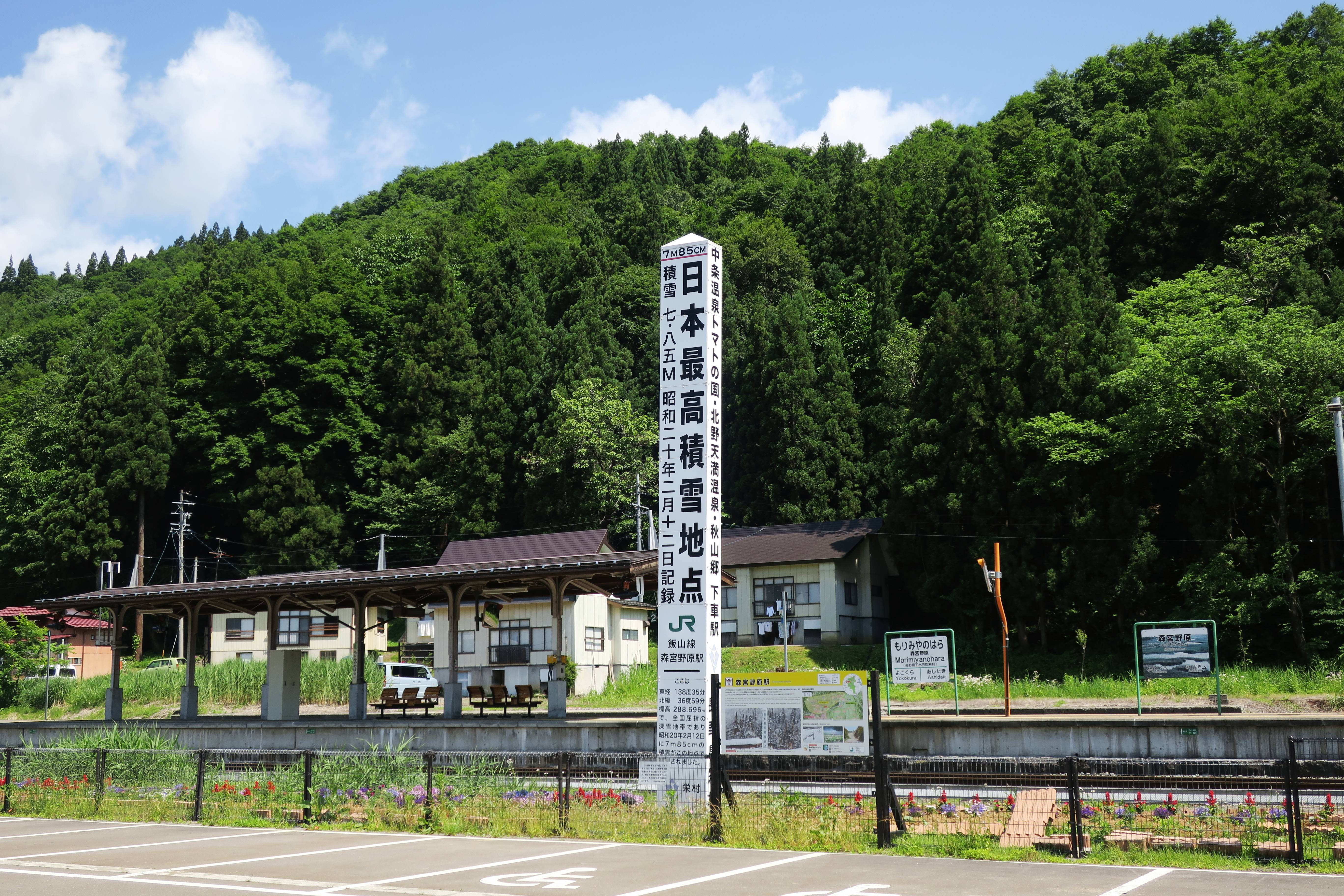 Morimiyanohara Station (Sakae, Nagano).